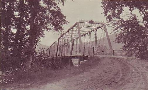 Bridge across the Androscoggin River, Shelburne, NH; from a c. 1920 postcard.